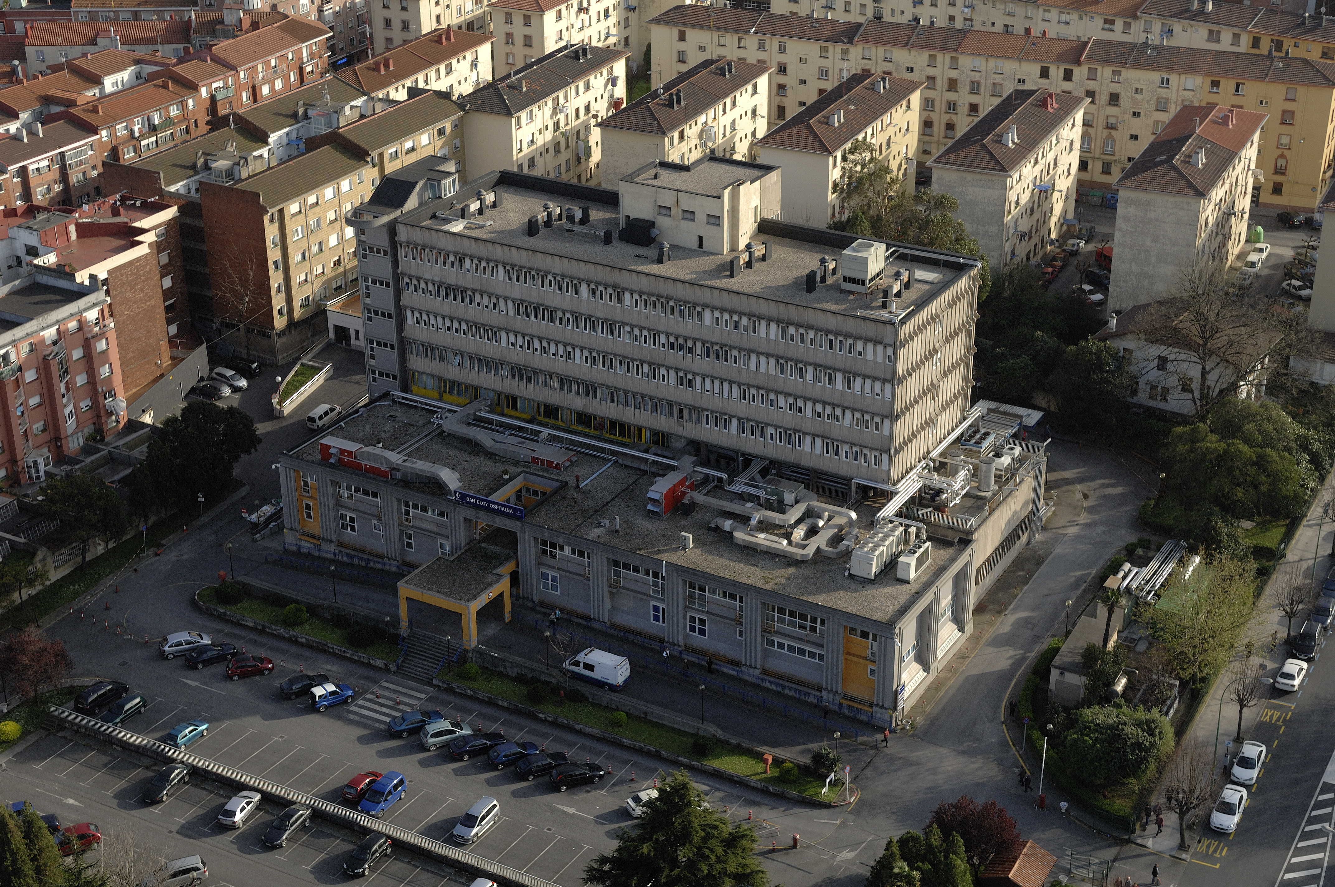 San Eloy Hospital Osakidetza Barakaldo